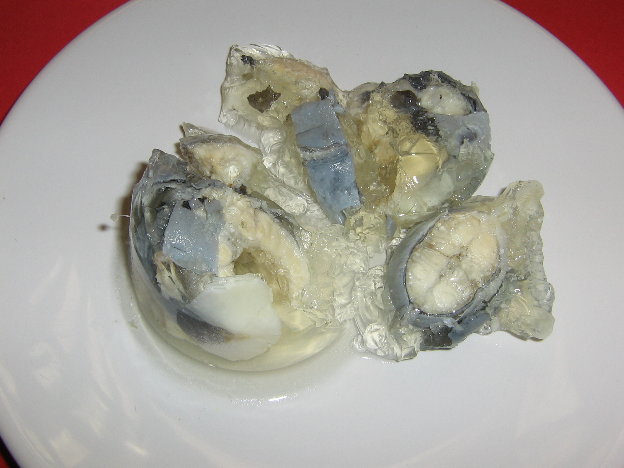 This photo of a plate of jellied eels, bought at a Morrisons supermarket in Reading, Berks, taken by me, JanesDaddy, and realised under a free license.